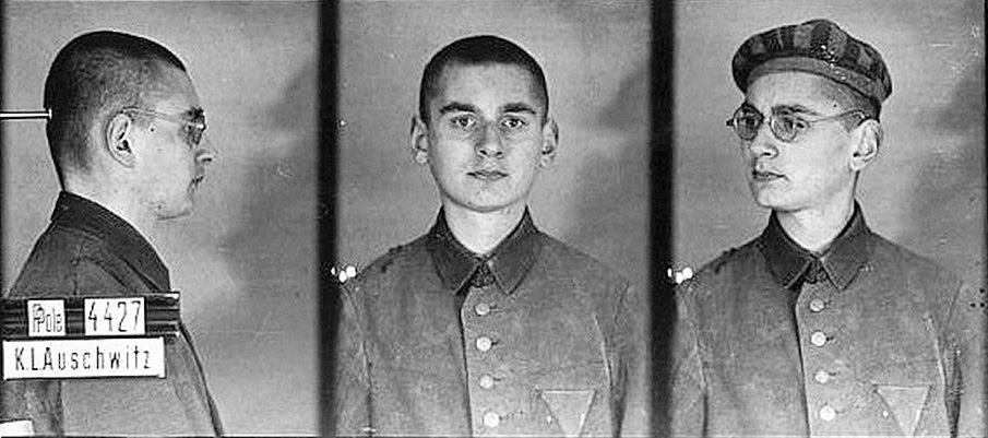 Władysław Bartoszewski (1922-2015) –Polish historian and politician Here in Nazi-Germany Concentration Camp KL Auschwitz 1940